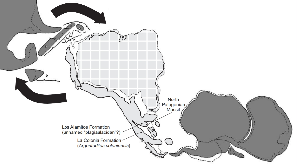 Paleogeography Gondwana - Late Cretaceous-Early Paleogene - around 85-63 Ma